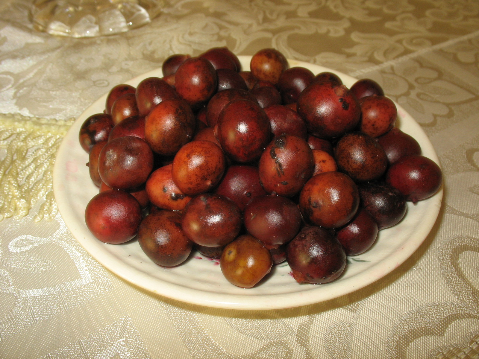 Corozos